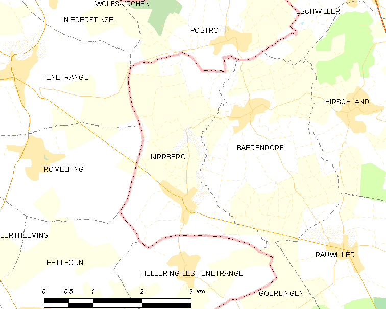 Map of French municipality